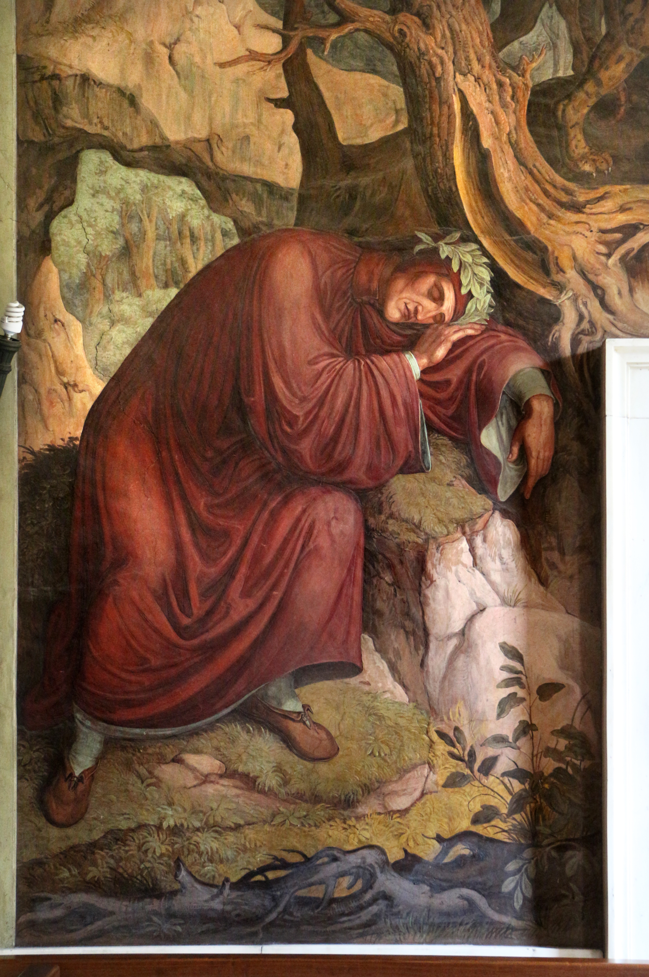 Casa Massimo frescos - stanza di Dante